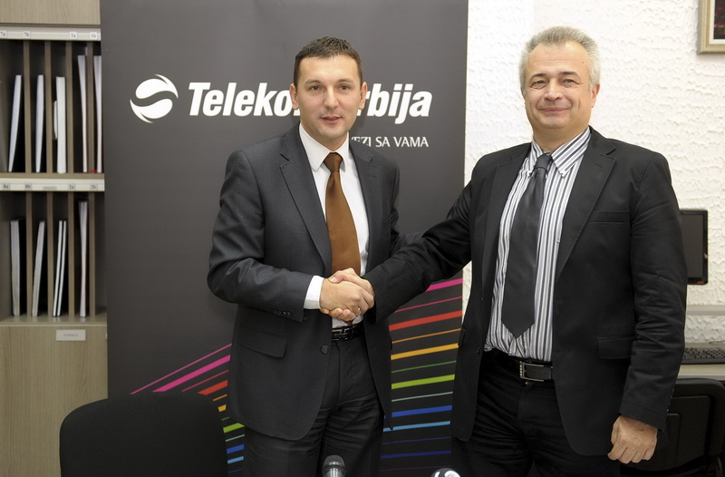 Telekom Srbija (Serbian Telecom) and Mathematical Gymnasium Belgrade signed agreement: Telecom Serbia will continue to support Mathematical Gymnasium Belgrade and invest in its telecommunication equipment (IT, ICT, 1Gbps internet link, video conferences, etc).